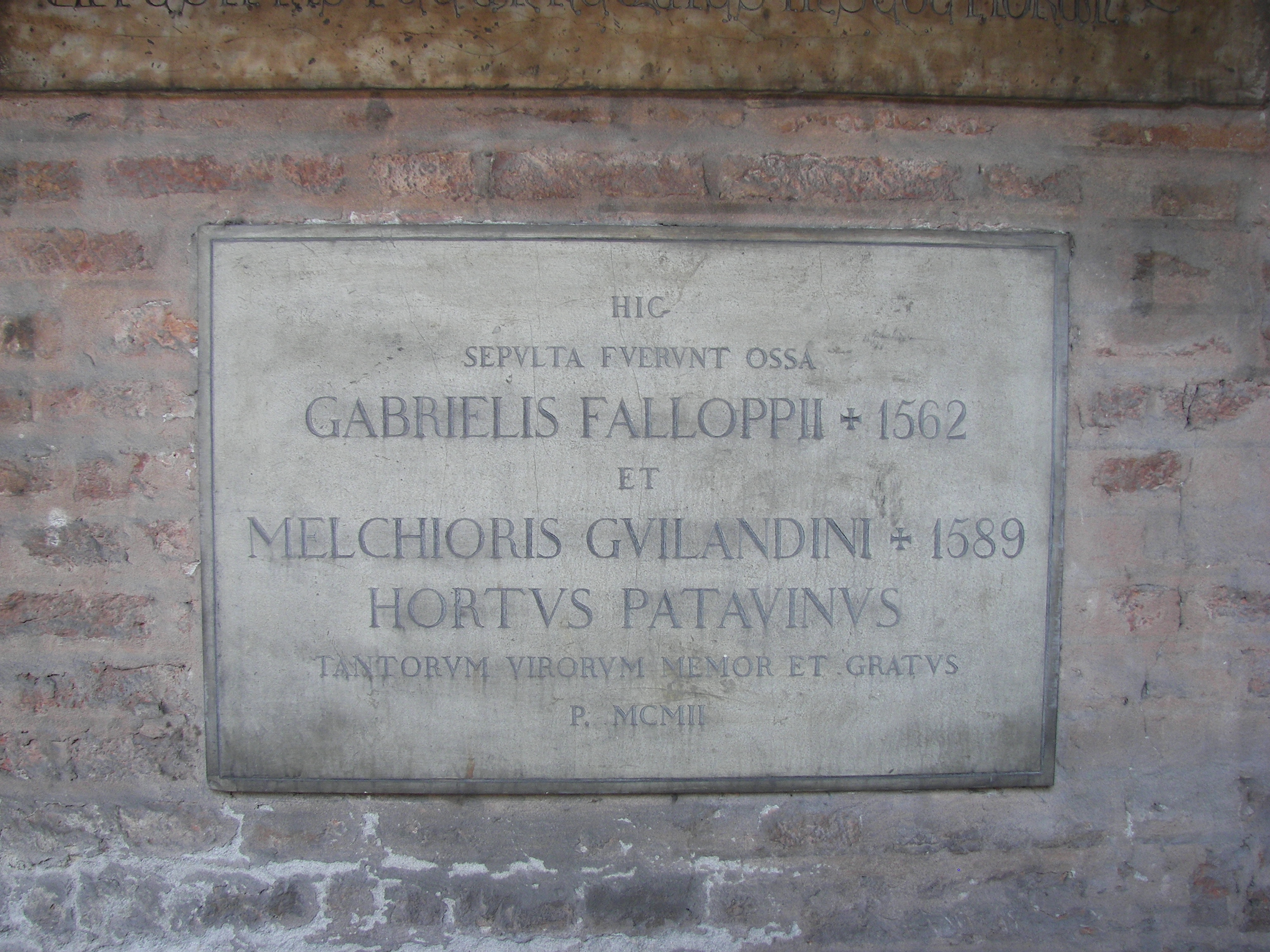 Burial marker outside the Basilica of Saint Anthony of Padua in Padova.